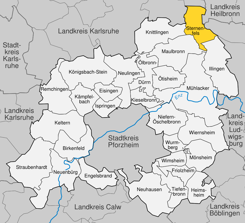 position of Sternenfels within distict of Enzkreis, Baden-Württemberg, Germany